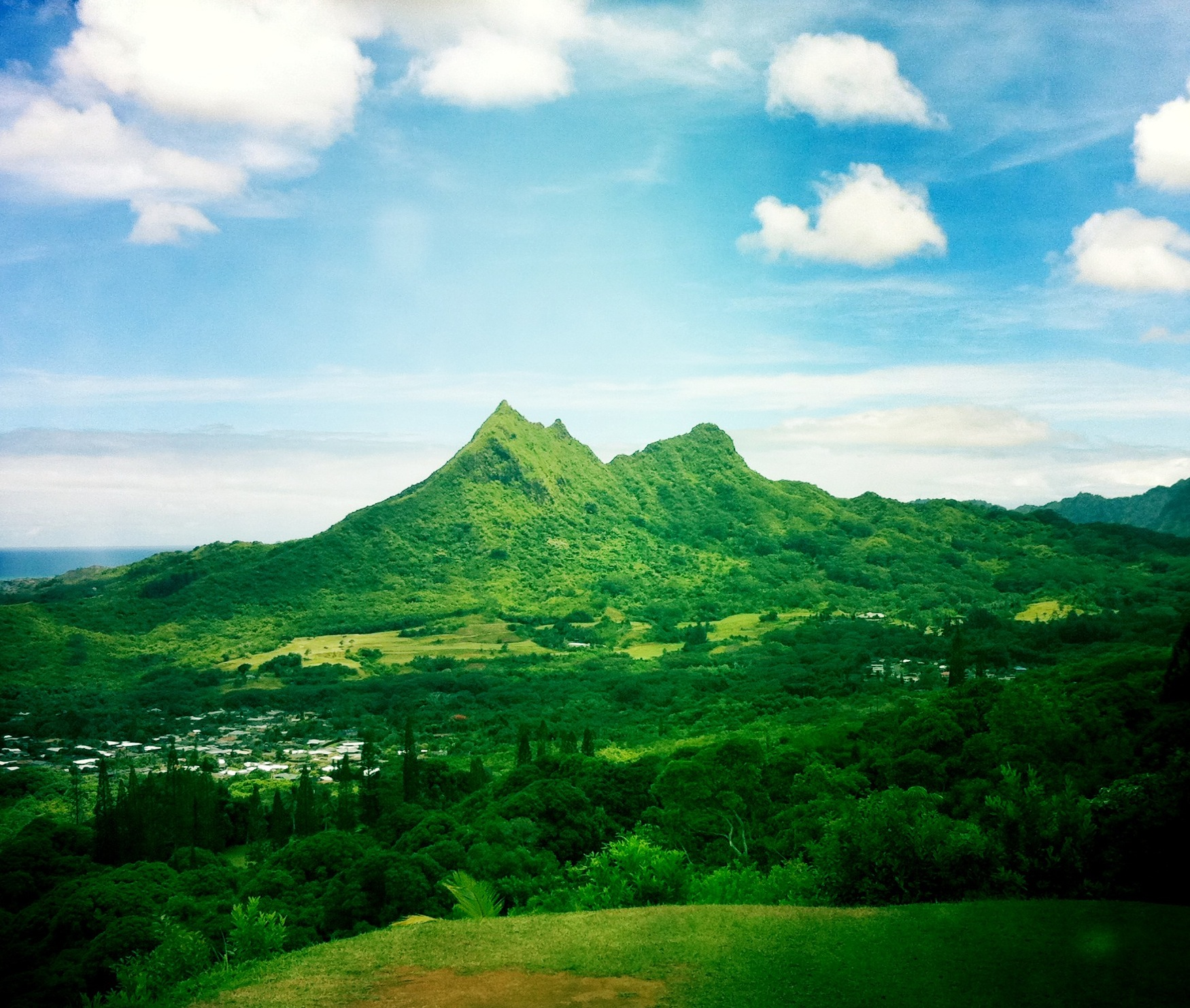 Photo of Olomana from the Pali highway lookout, late Summer 2010